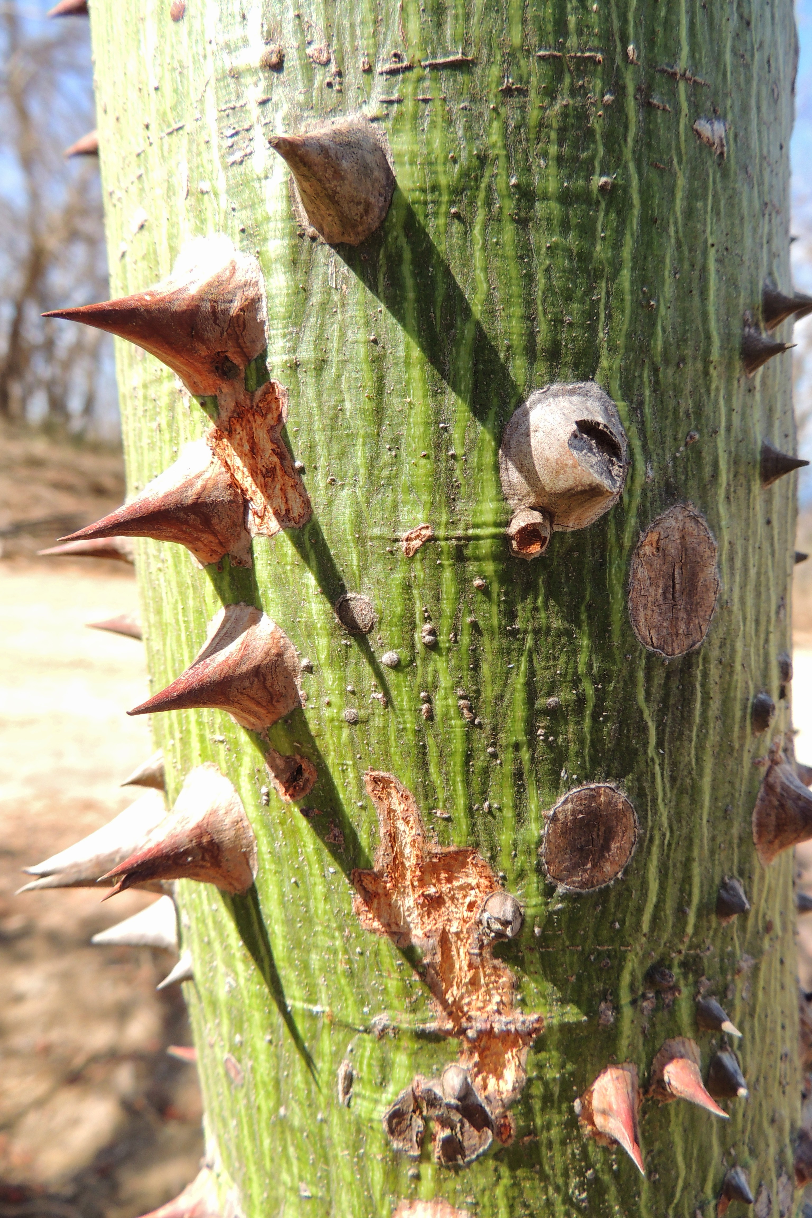 Ceiba